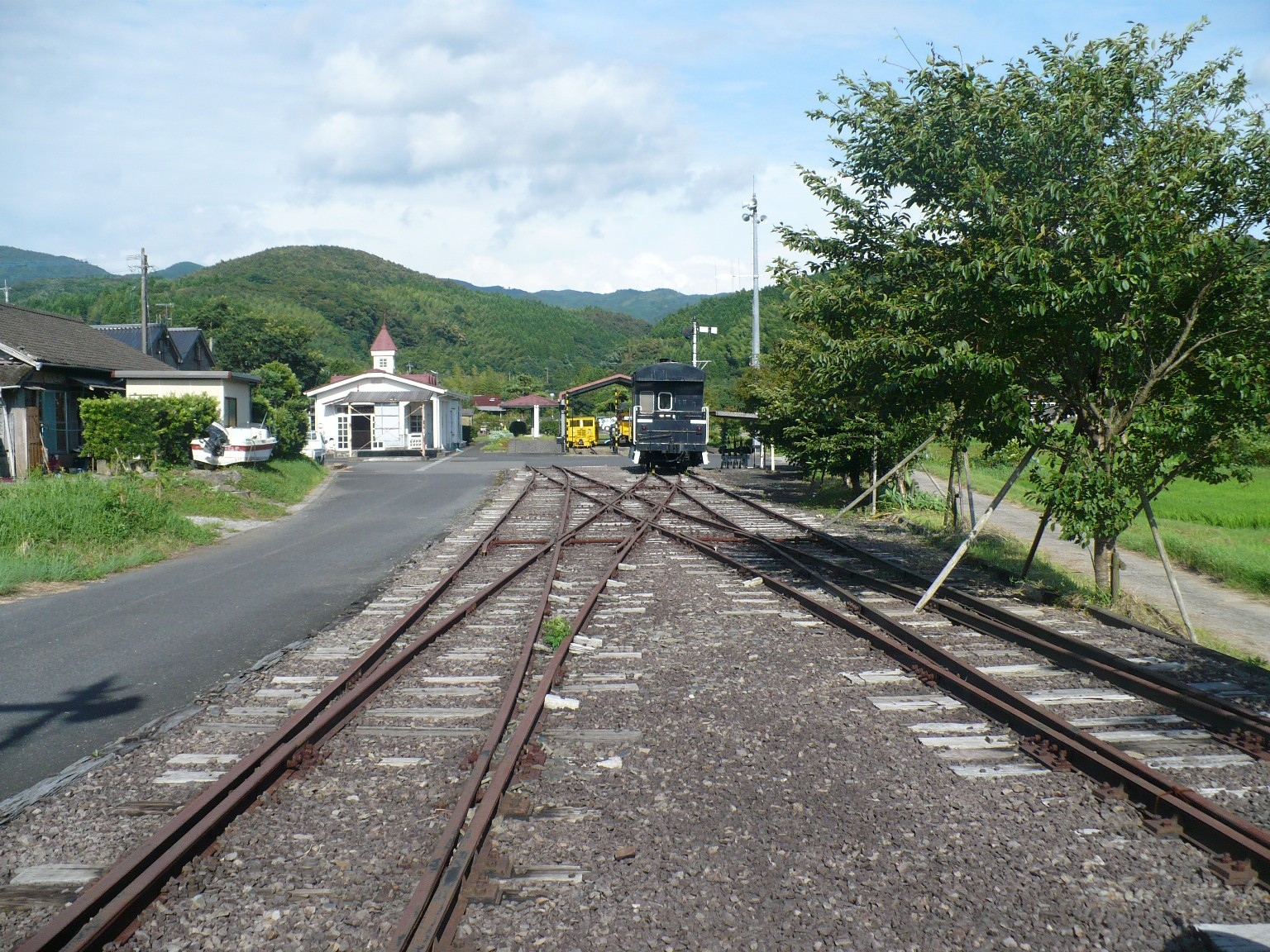 The scissorscross switch preserved at Nagano railway memorial, Satsuma, Kagoshima, Japan. Abandoned Satsuma-Nagano station was a dead end station and trains must change directions here to continue their travels. The switch was preserved because it was the symbol of this dead end station. The position of the switch was slightly moved from its original place.